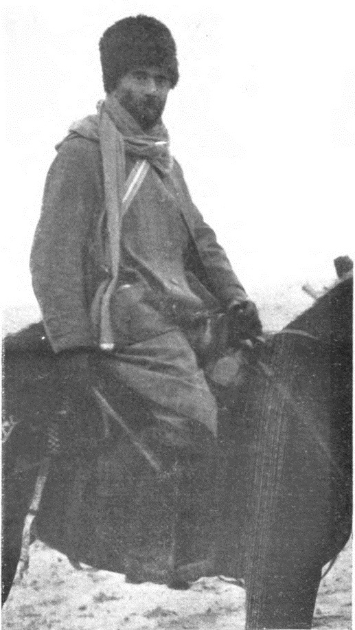 Khetcho Commander of cavalry Armenian volunteer units killed in July 1915 at the south part of Lake Van near the Bitlis just after Van Resistance following the Ottoman forces.